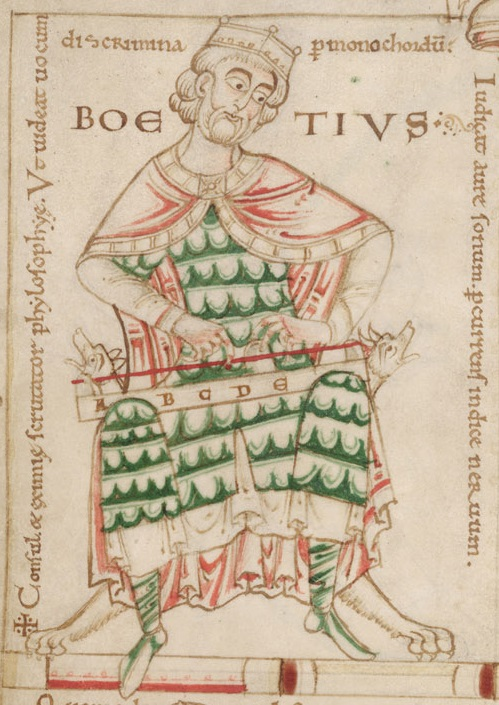 Medieval illustraion of Anicius Manlius Severinus Boëthius (a late-antique philosopher).